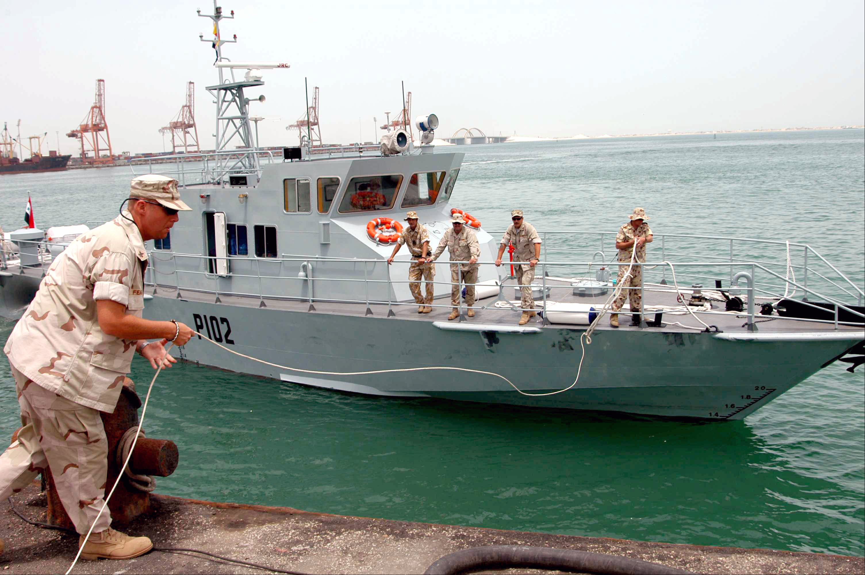 Manama Pier, Bahrain (Apr. 25, 2004) - Quartermaster 2nd Class Ryan Reppe secures a handling line as Iraqi Coastal Defense Force (ICDF) Patrol Craft 102 pulls into port in Manama, Bahrain following a 36 hour journey from Dubai, UAE. P102 is the first of five patrol vessels for the new Iraqi ICDF. Coalition forces comprised of U.S. Navy and Marines, Royal Australian Navy and Royal Navy will deliver it to its final destination of Umm Qasr. U.S. Navy photo By Photographer's Mate 1st Class Dean M. Dunwody. (RELEASED)